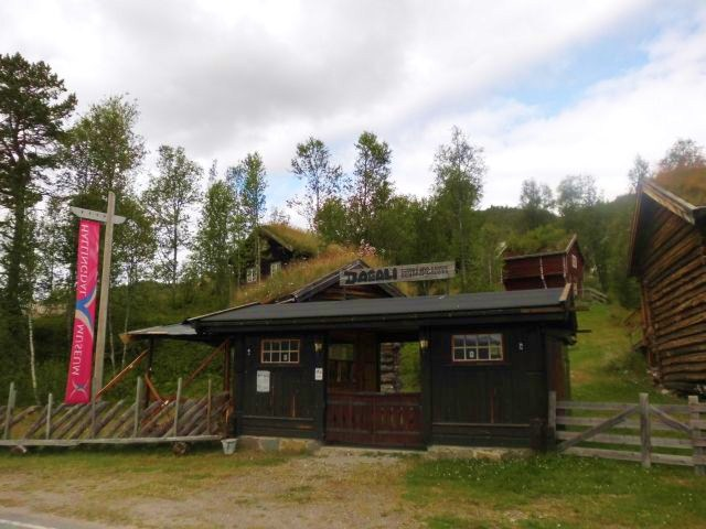 Dagali Museum, Dagali, Numedal, Norway